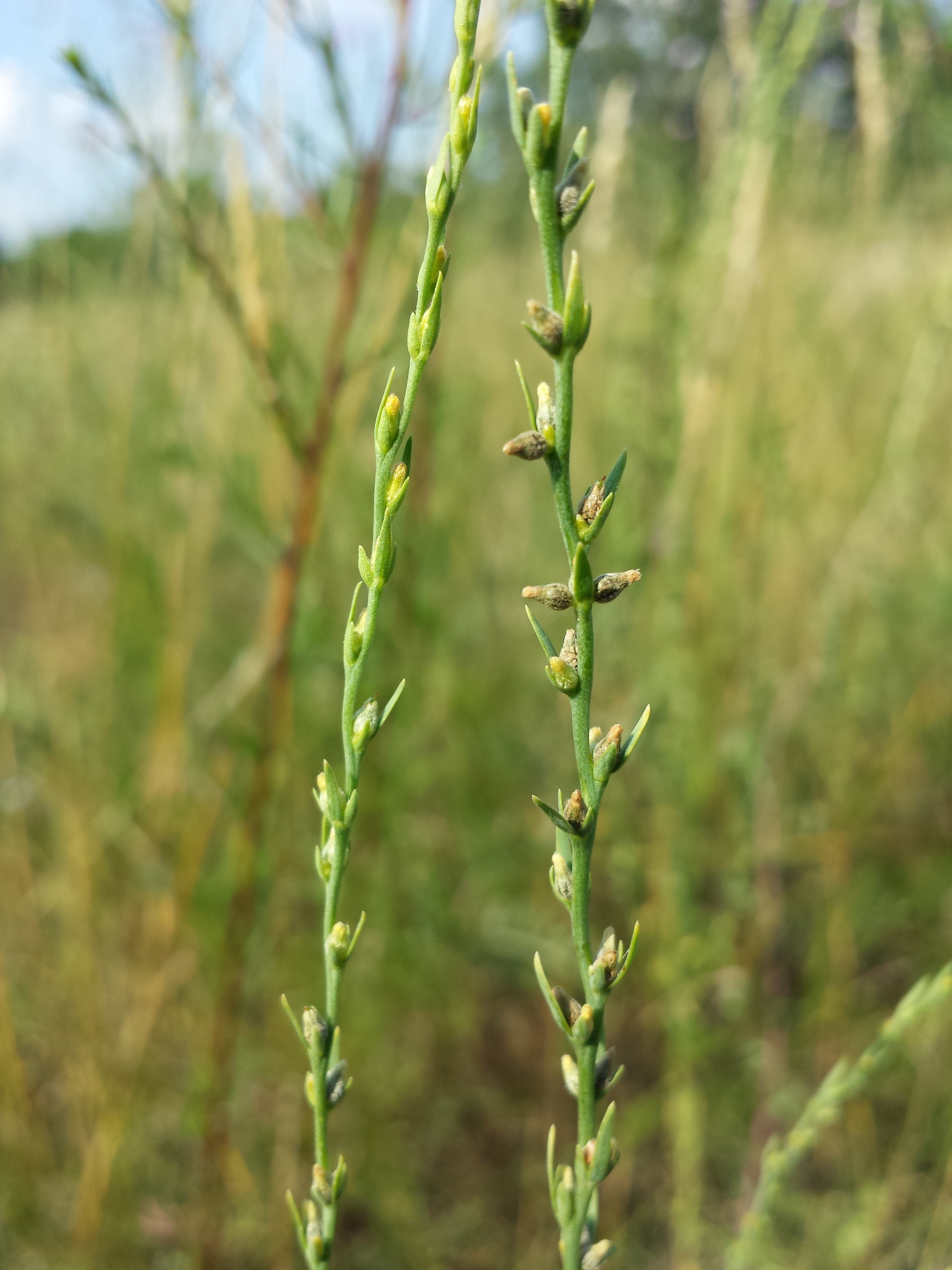 Flowers Taxon: Thymelaea passerina (sensu Fischer et al. EfÖLS 2008) Location: old marshalling yard Breitenlee, Vienna-Donaustadt - ca. 160 m a.s.l. Habitat: dry grassland